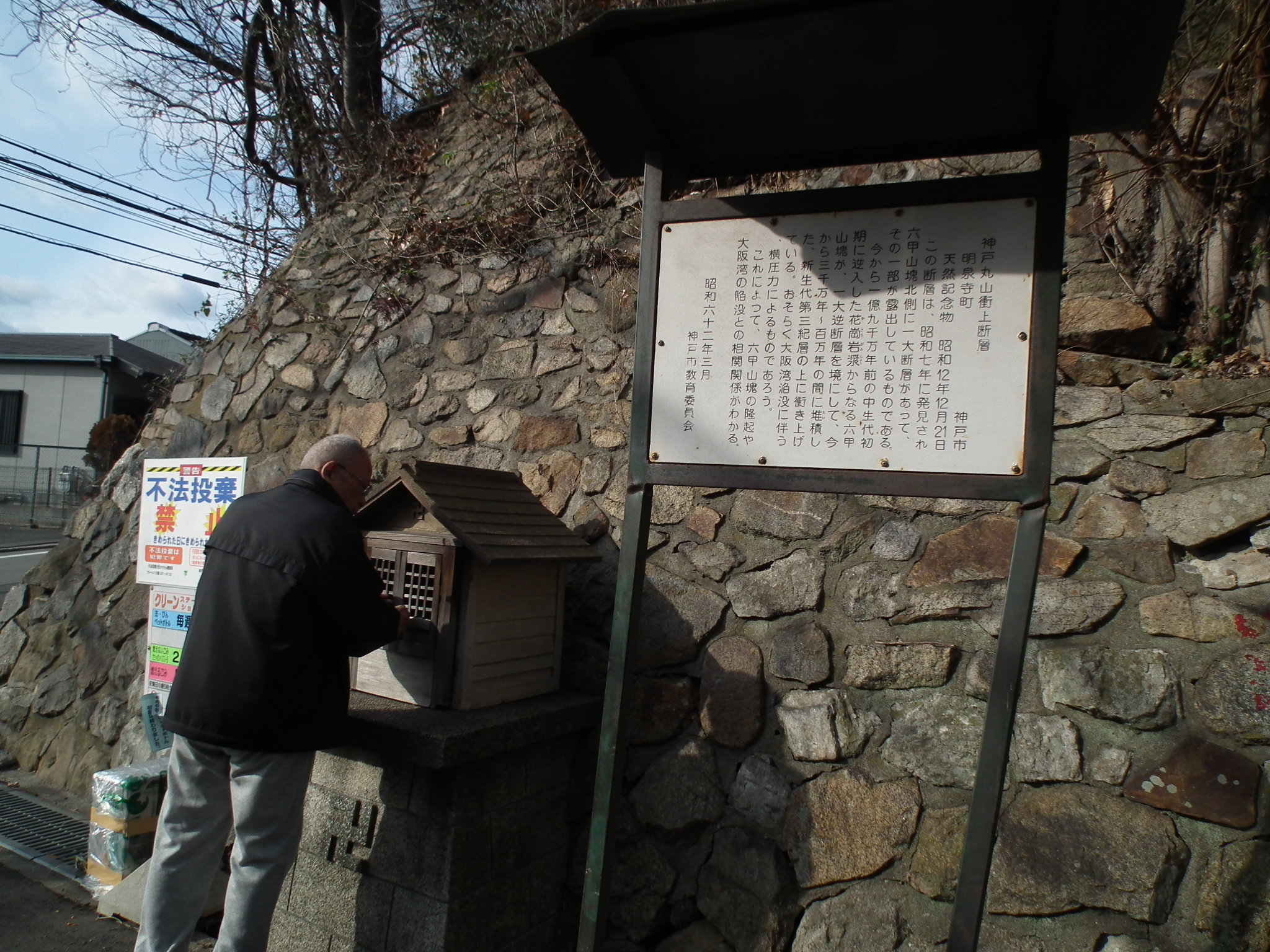 Maruyama thrust fault